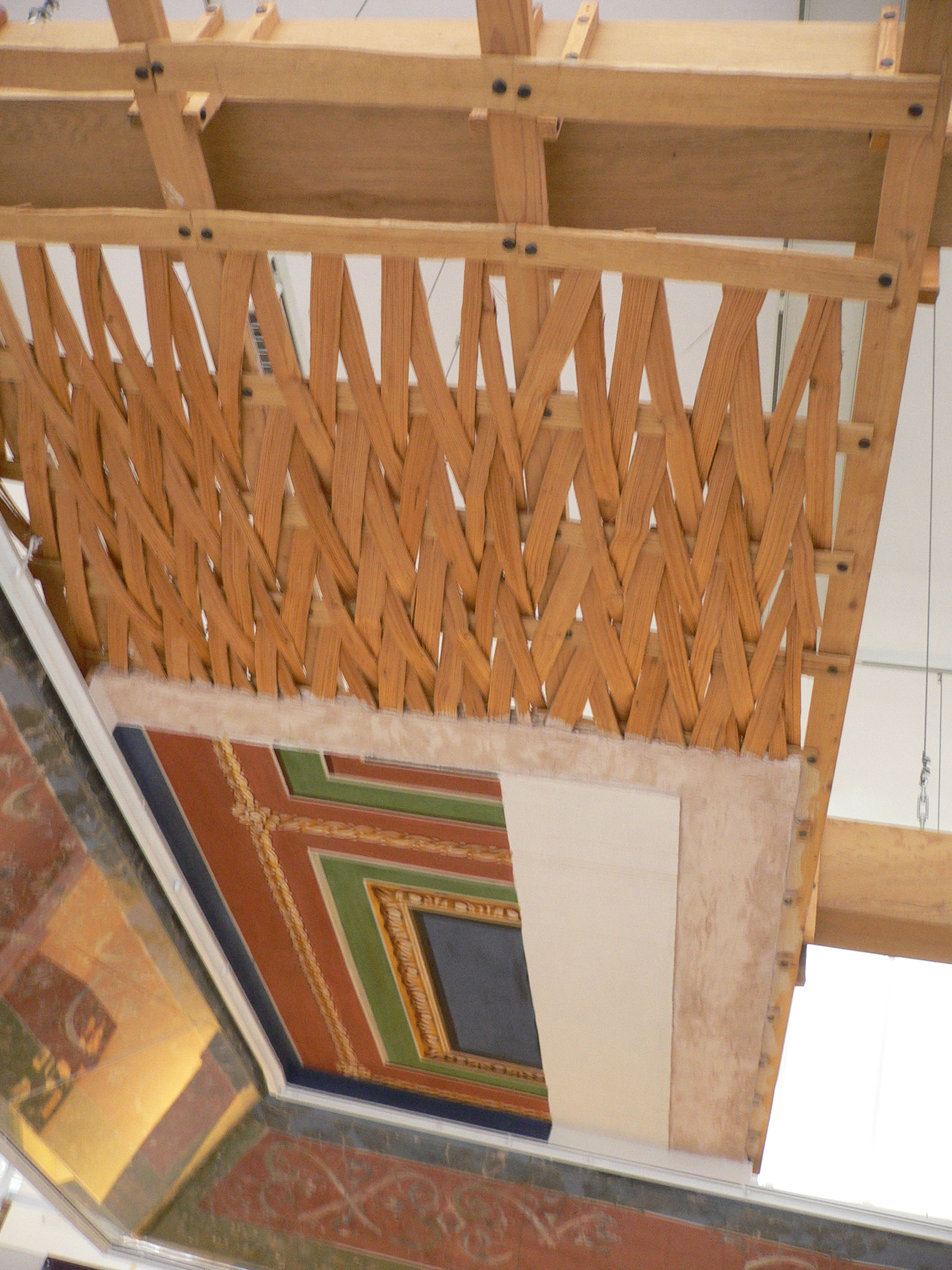 Demonstrative reconstruction of Roman suspended plaster ceiling found in Trier Cathedral original date circa AD 306